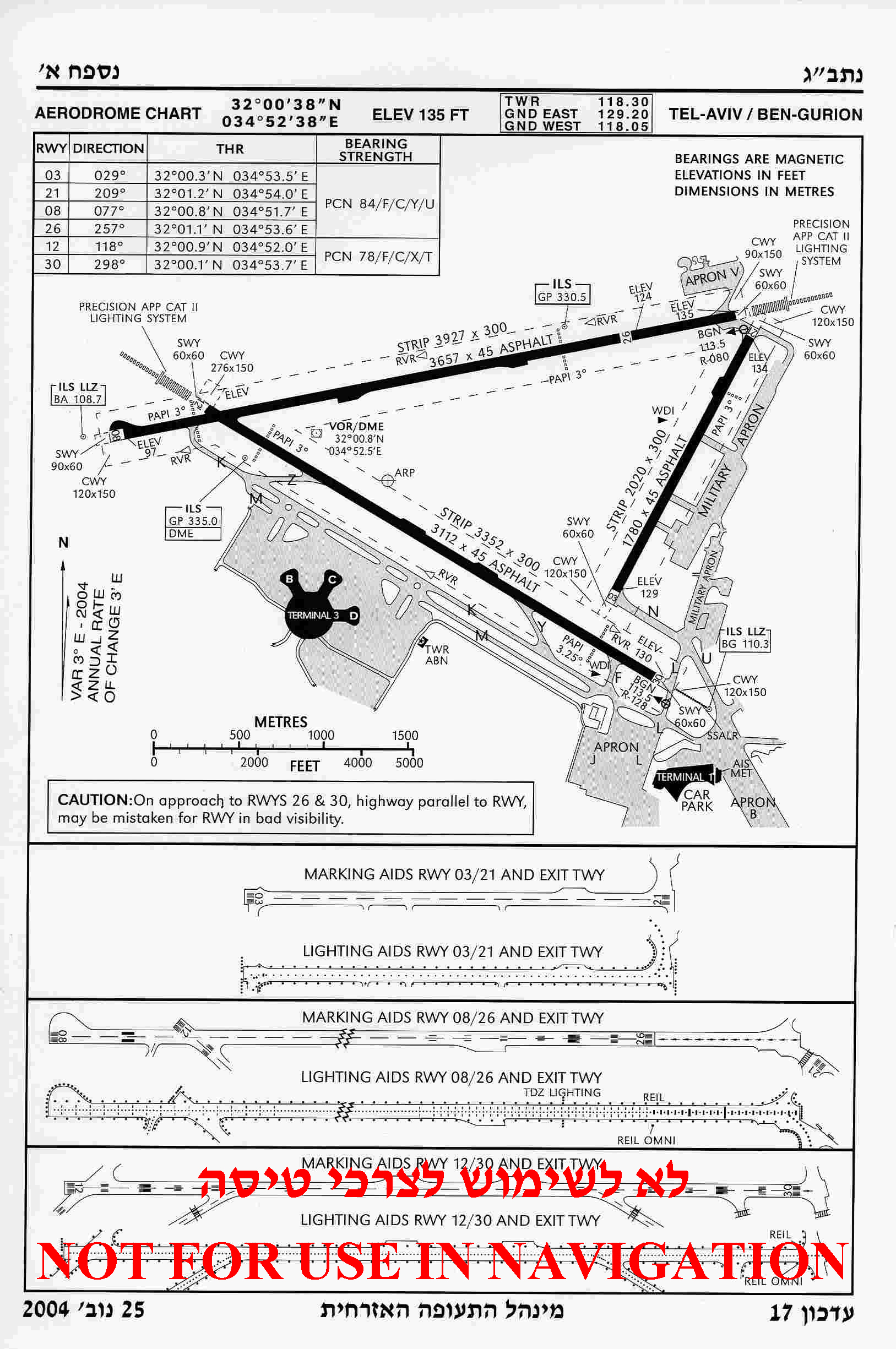 Ben-Gurion (Israel) Aerodrome Chart